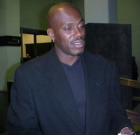 Lexington Steele, taken at the Free Speech Coalition's 13th Annual Night of the Stars Dinner, July 29, 2000